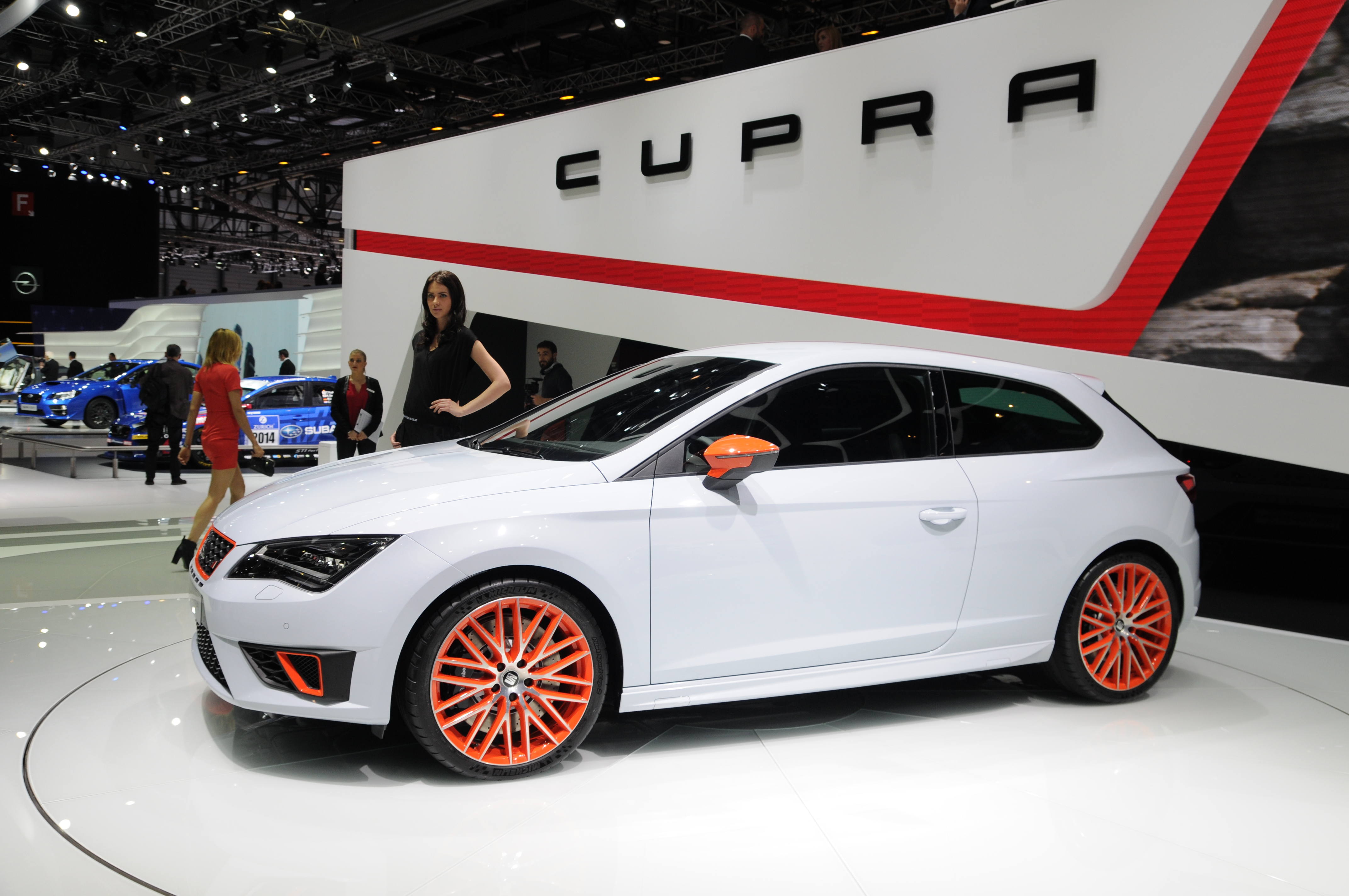 Geneva Motor Show 2014 (photo taken on the first press day)